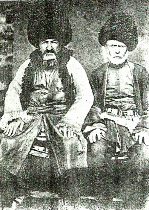 Khinalig village in early 20th century. Khinalig men in their national clothes.